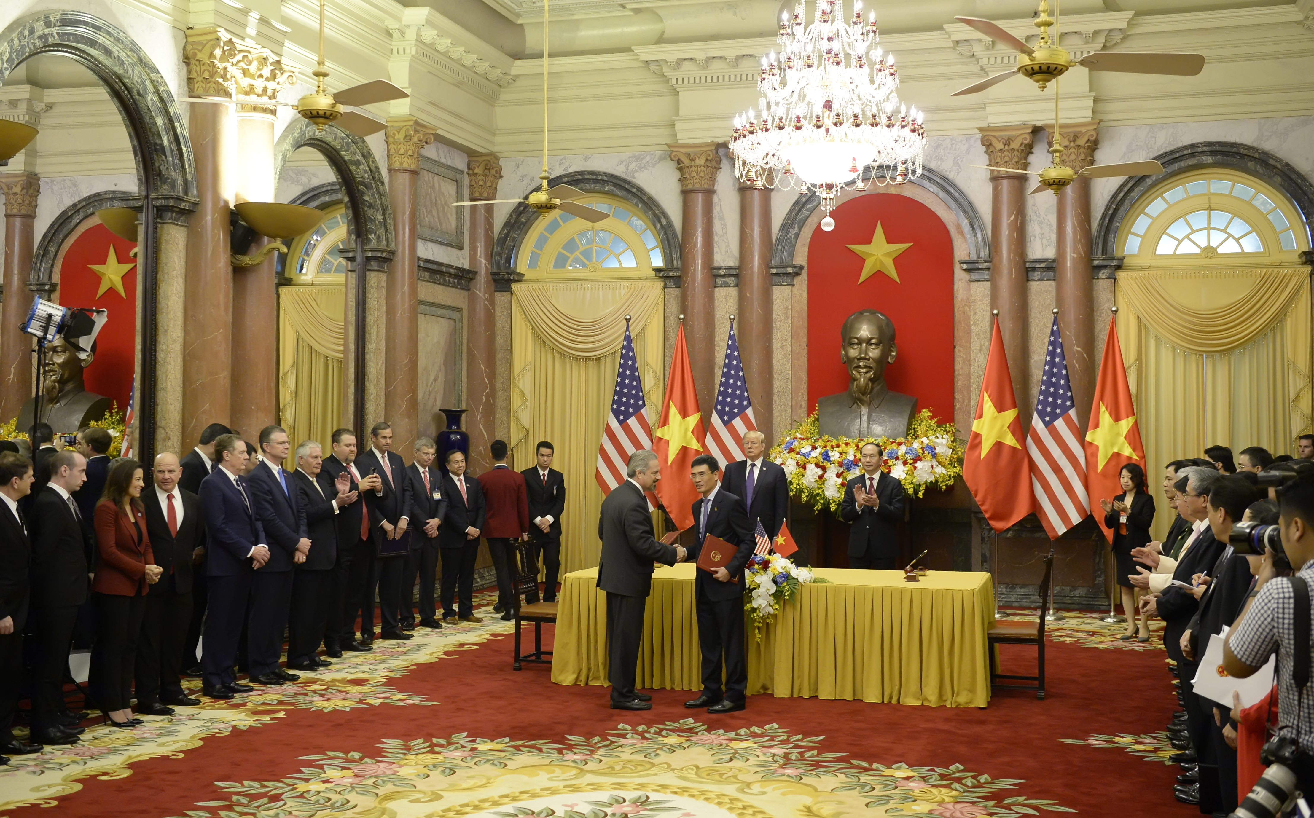 U.S. Secretary of State Rex Tillerson accompanies President Donald Trump to a commercial deals signing ceremony with Vietnamese President Tran Dai Quang at the Presidential Palace in Hanoi, Vietnam, on November 12, 2017. [State Department Photo/ Public Domain]